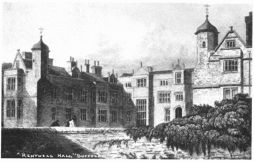 Engraving of Kentwell Hall dated 1823